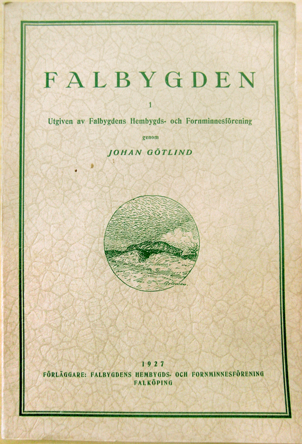 The first issue of "Falbygden" from 1927. A periodical for local history around Falköping in Västergötland, Sweden.